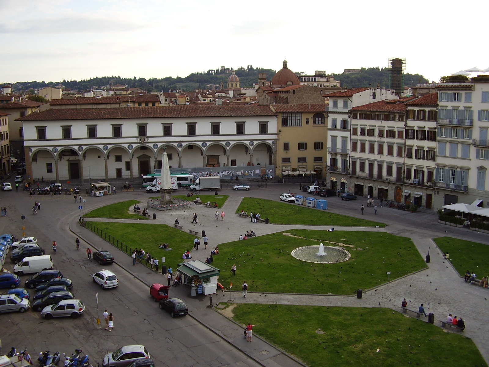 Santa Maria Novella Square, aerial view, from florence, Italy